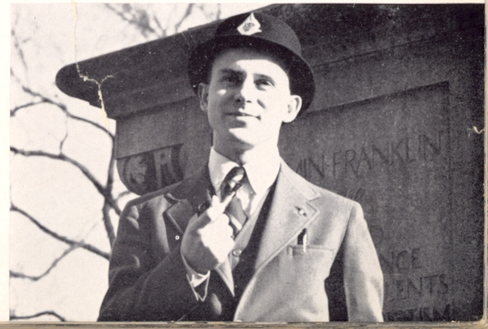 Bob Paul, C'39, wearing the Friar hat in front of Benjamin Franklin monument at the University of Pennsylvania.